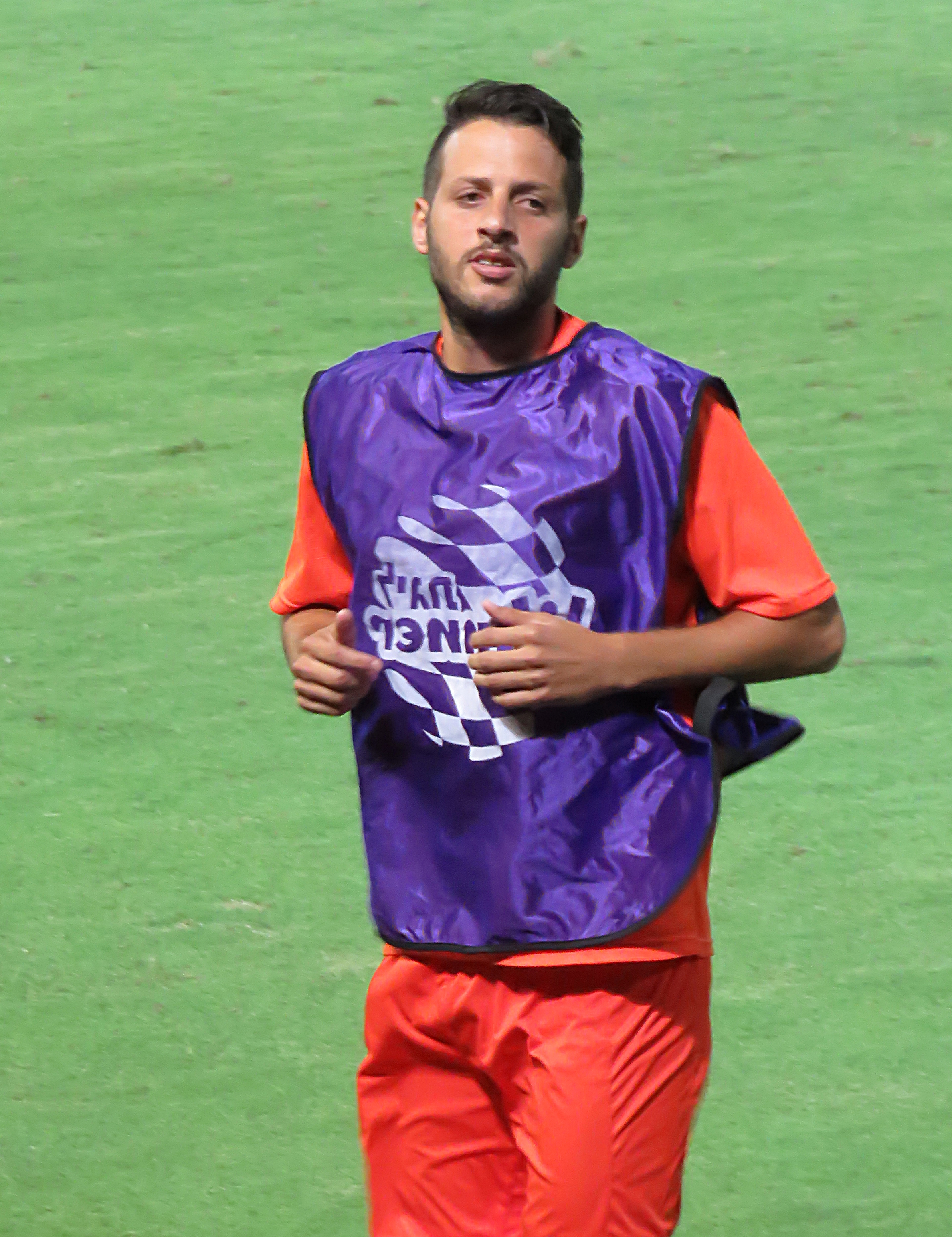 Bnei Yehuda Tel Aviv vs. Beitar Jerusalem - 19 September, 2015